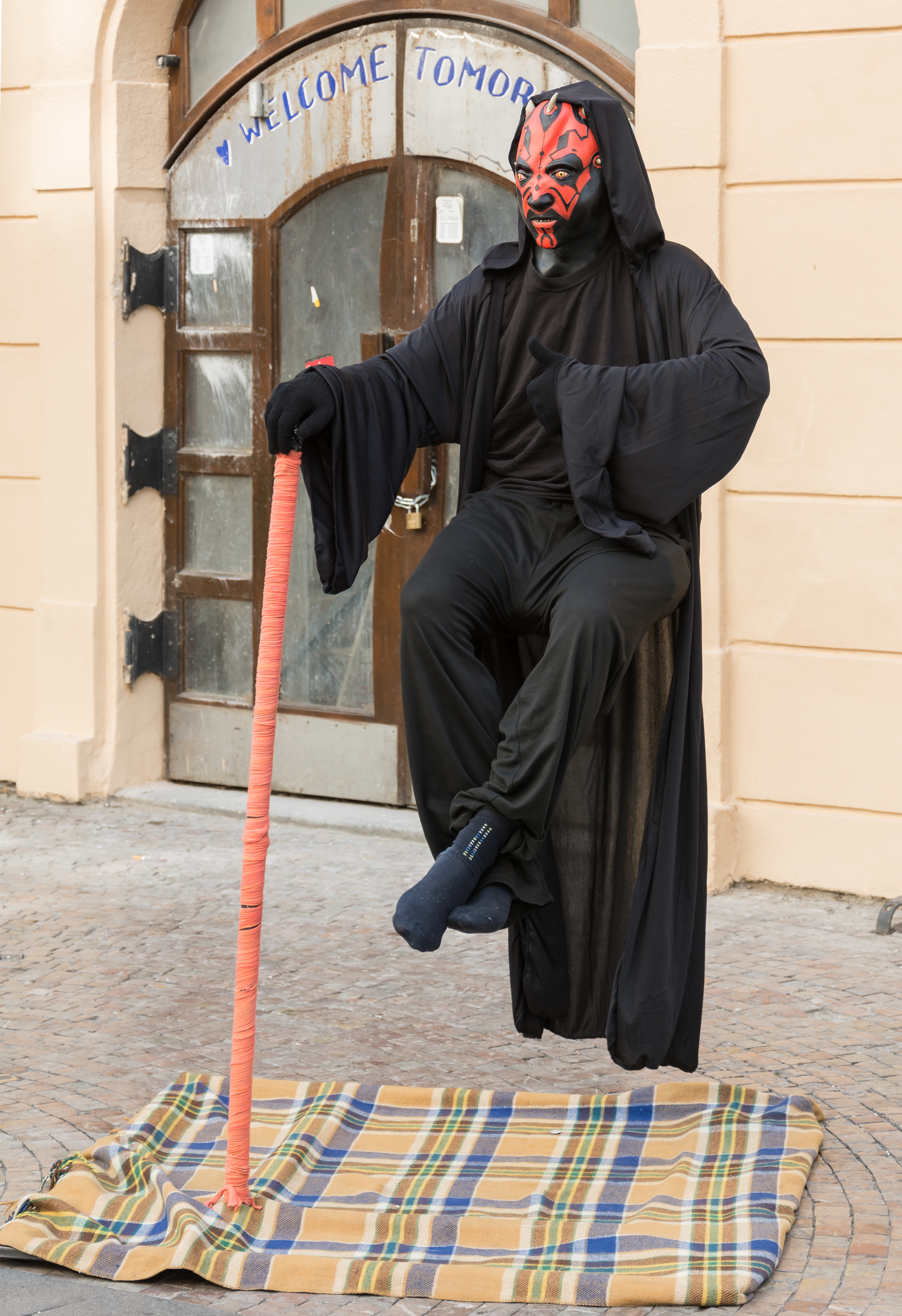 Street magician in Prague